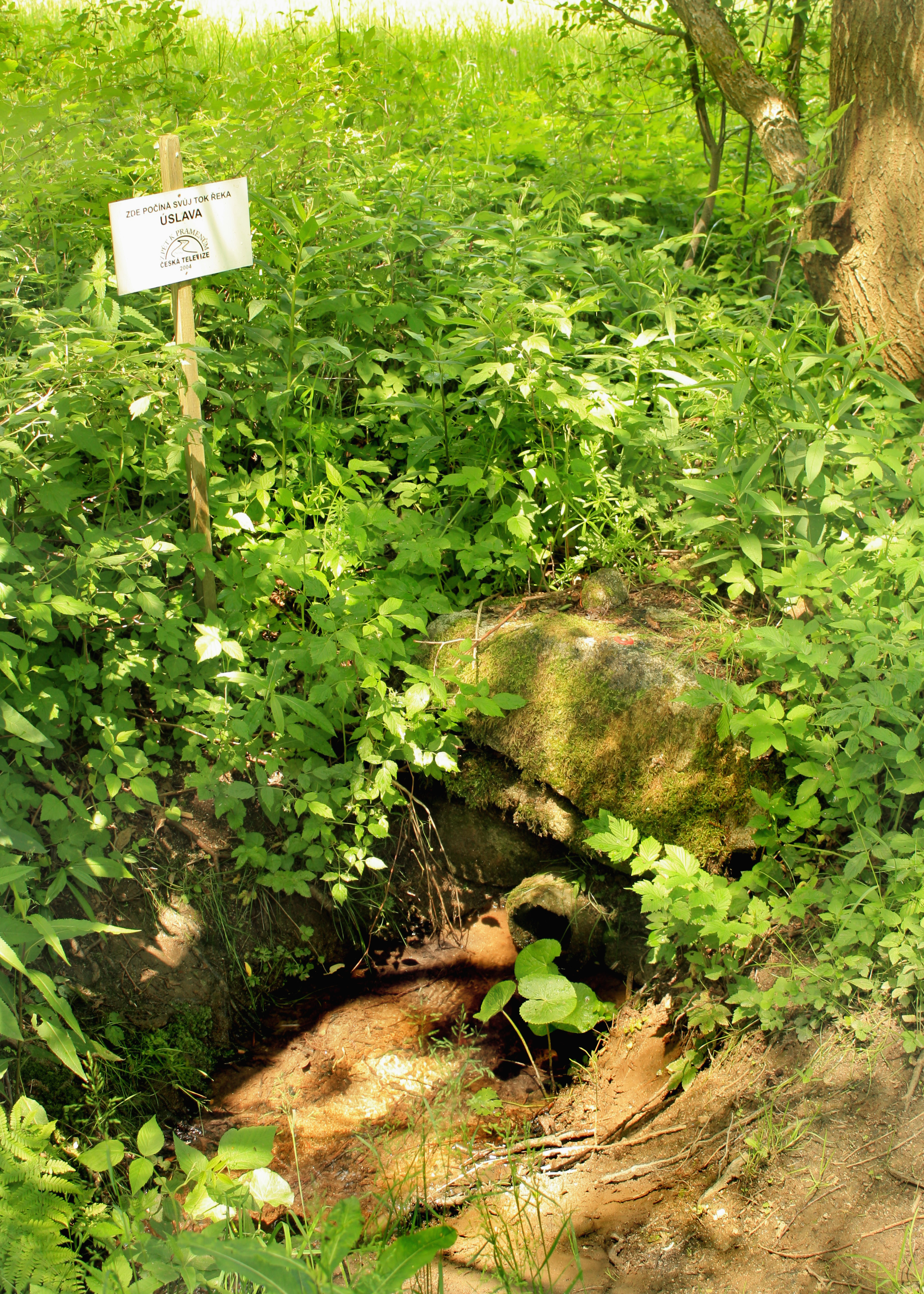 Spring of Úslava river near Lukoviště, part of Kolinec, Czech Republic